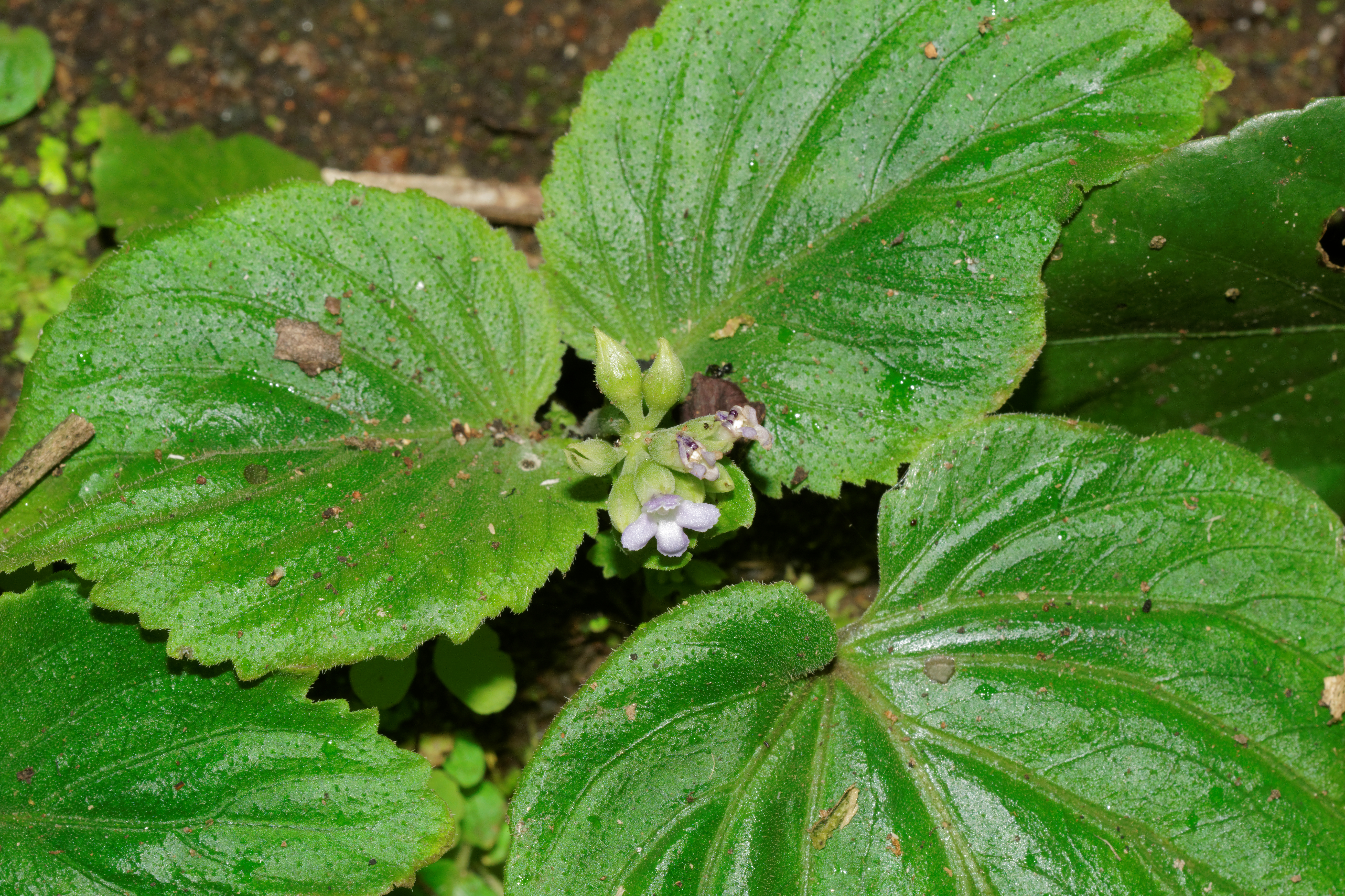 Microchirita hamosa is a species of flowering plant in the family Gesneriaceae, found in semi-evergreen to moist deciduous forests, shaded rocks in forests, cliffs, or stream side valleys. (Indian Flora)